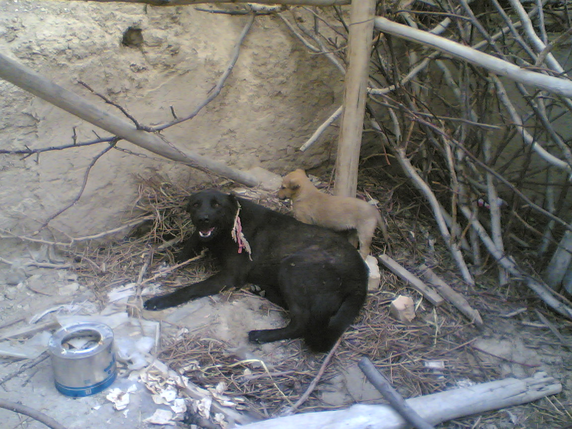 A Poppy and Dog in Penderjohn for Protection of Sheeps by Shepherds